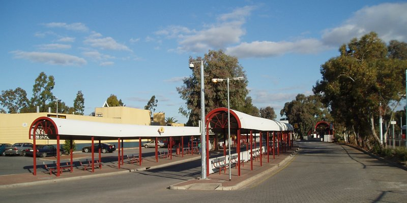 Bus departure bays at Salisbury Interchange, South Australia.